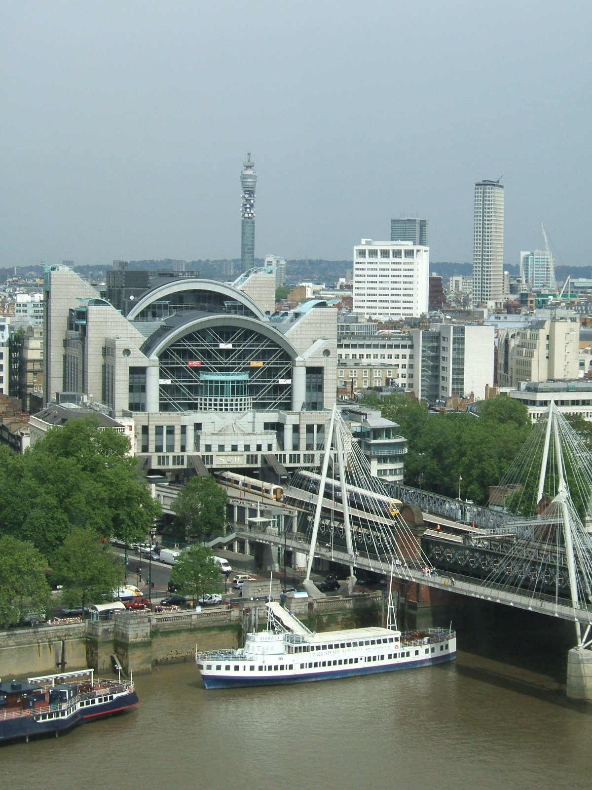 from the London Eye...Charing Cross Station